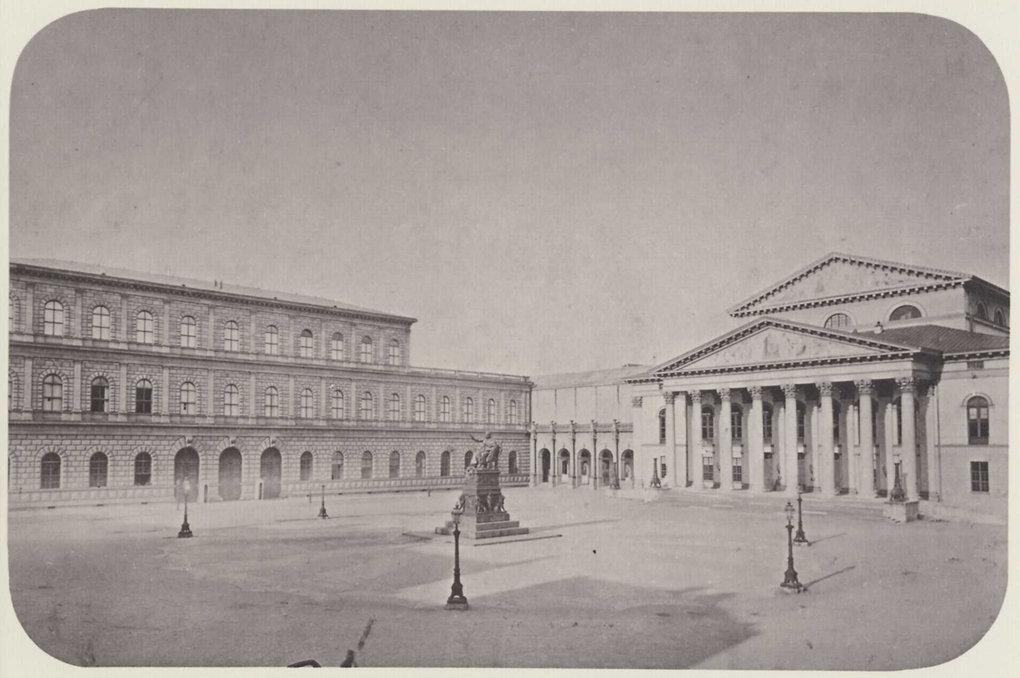 Joseph Albert: Munic Residence